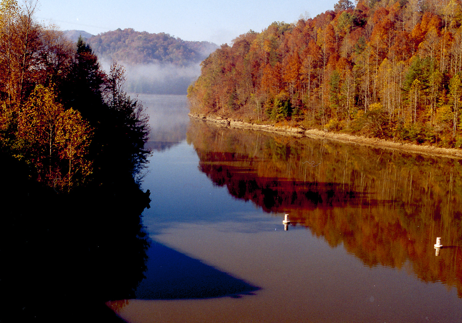 Martins Fork Lake in Harlan County, Kentucky, USA. The lake is impounded by Martins Fork Dam, constructed in 1979 by the U.S. Army Corps of Engineers.